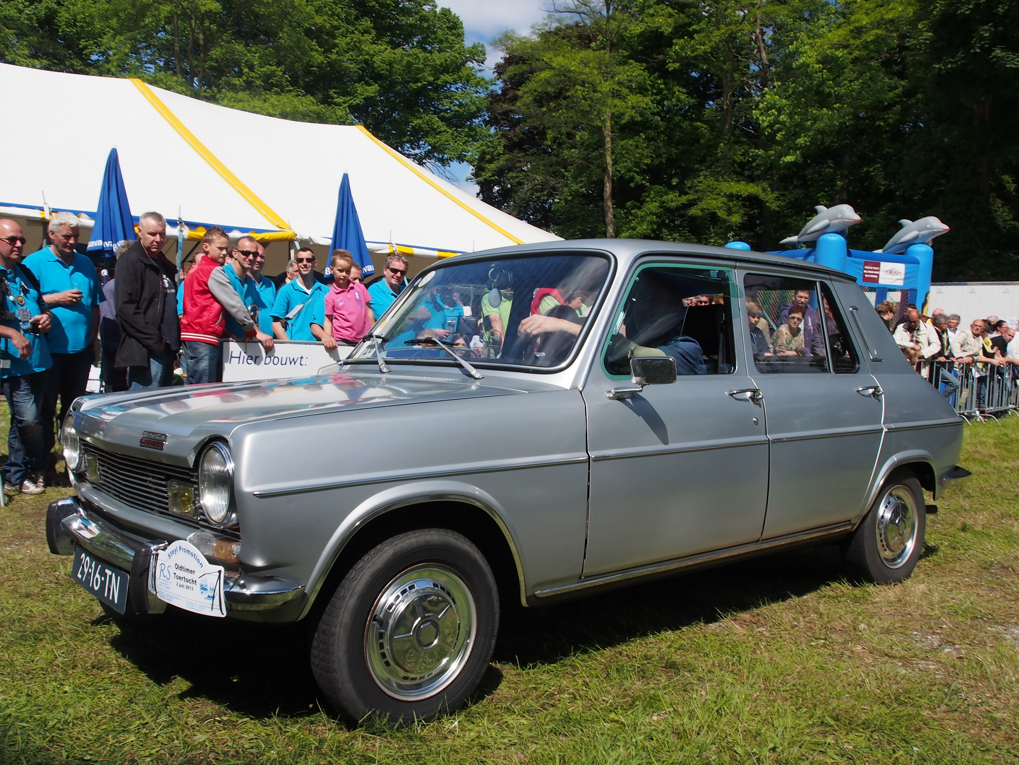 This is a picture of a vehicle (name of it is on the file name).